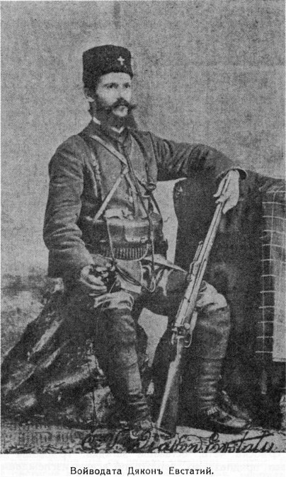 portrait of Georgi Shkornov